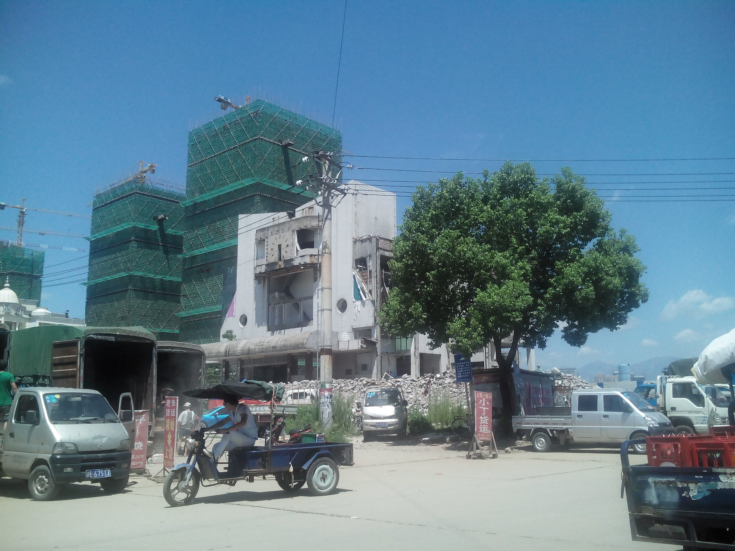 201507Old Shangrao Railway Station